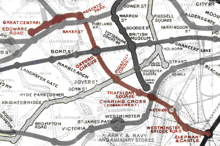 Map of the Bakerloo Railway, 1908